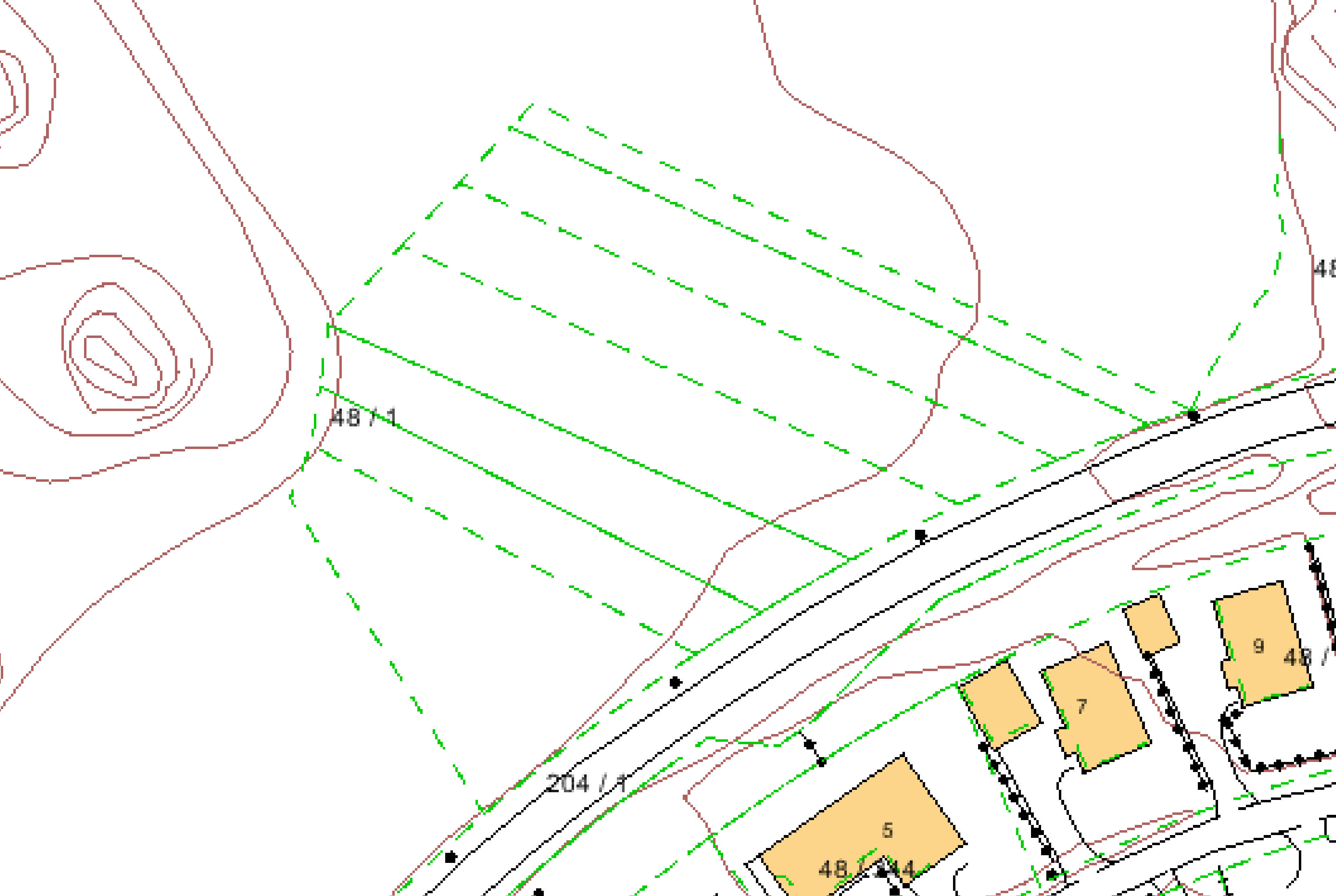 "Teig" Example from Grimstad, Norway